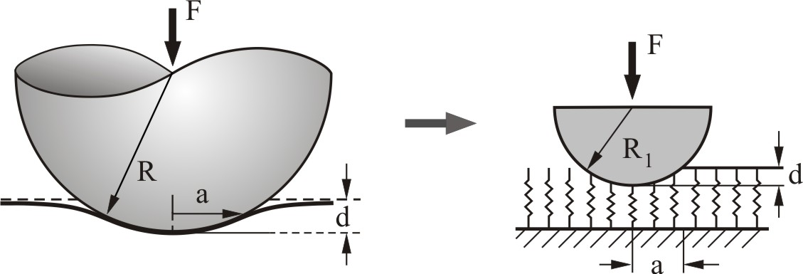 Replacement of a three-dimensional profile by a one-dimensional one